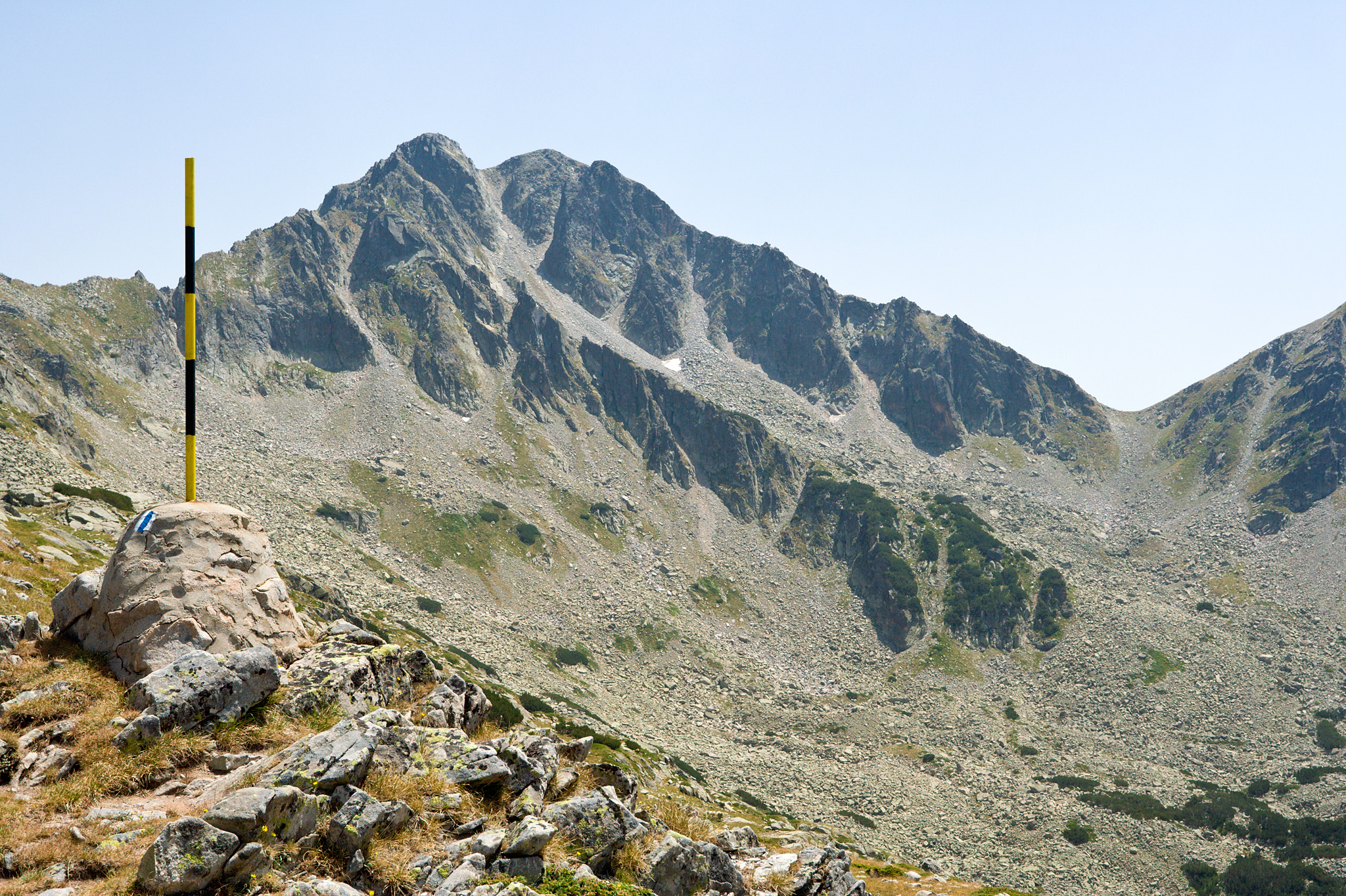 Ialovarnika peak, Pirin mountain, Bulgaria